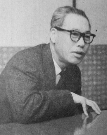 Shimura photo date is Asahi Shimbun-Asahi Graph, January 22, 1956.